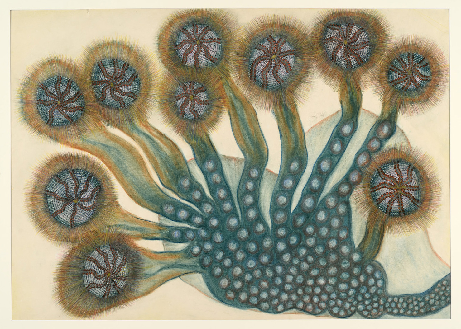 Anna Zemánková, No title, 1960s